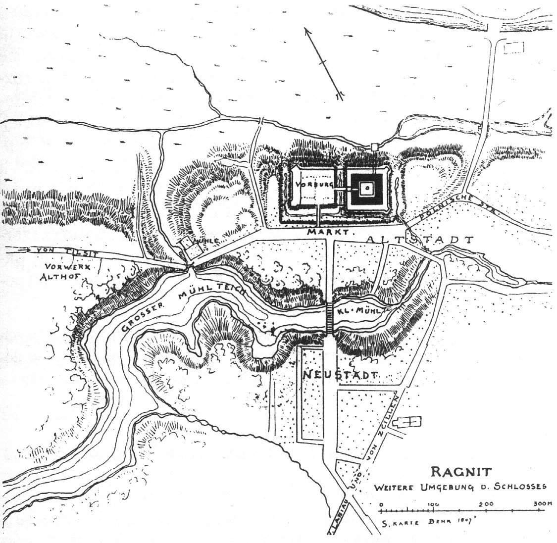 Neman Castle